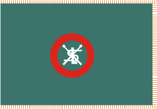 Flag of the Somaliland Armed Forces